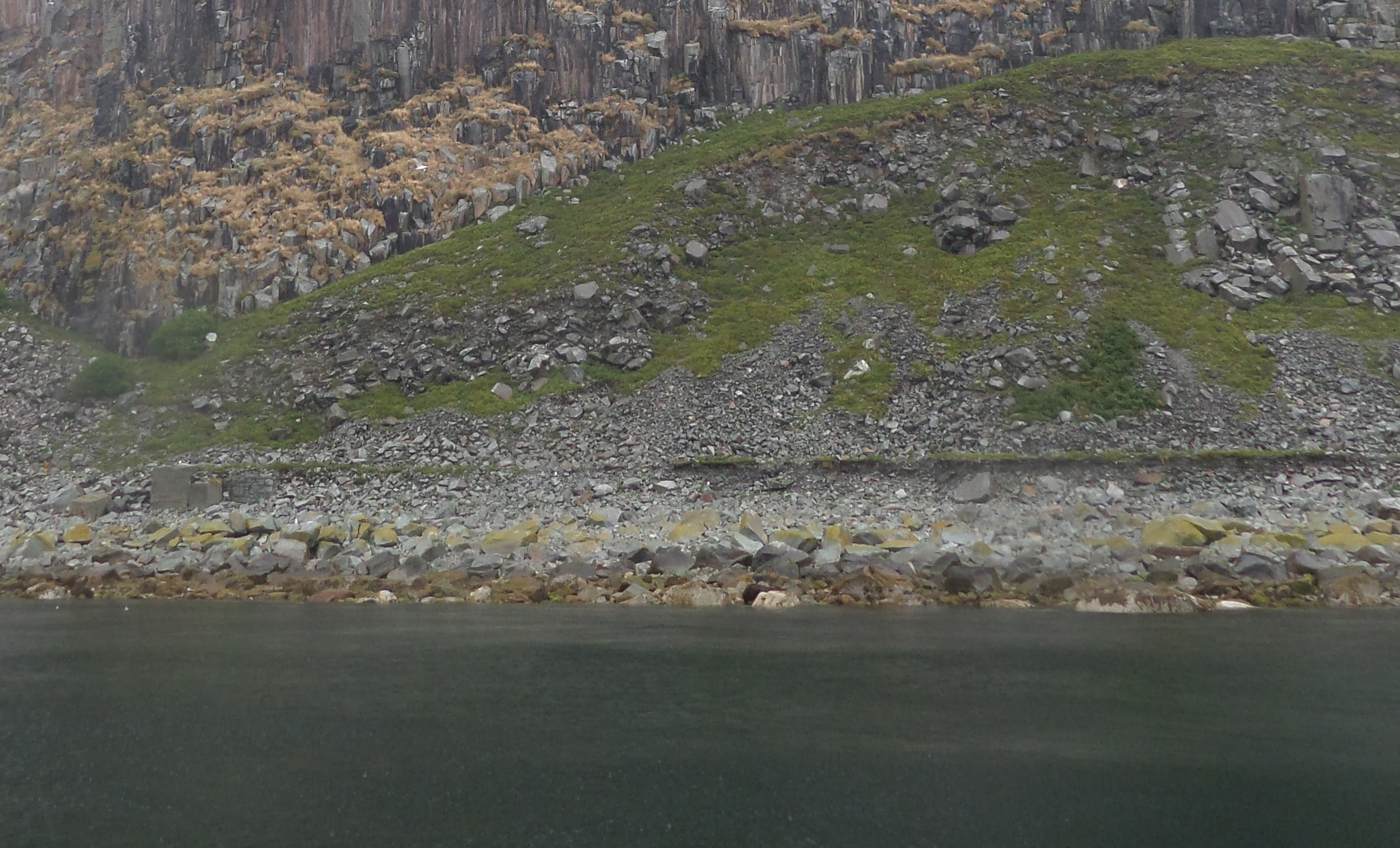 Concrete structure at the old Ailsa Granite Company's roadstone quarry and mineral railway embankment at Kennedy's Nags, Ailsa Craig.